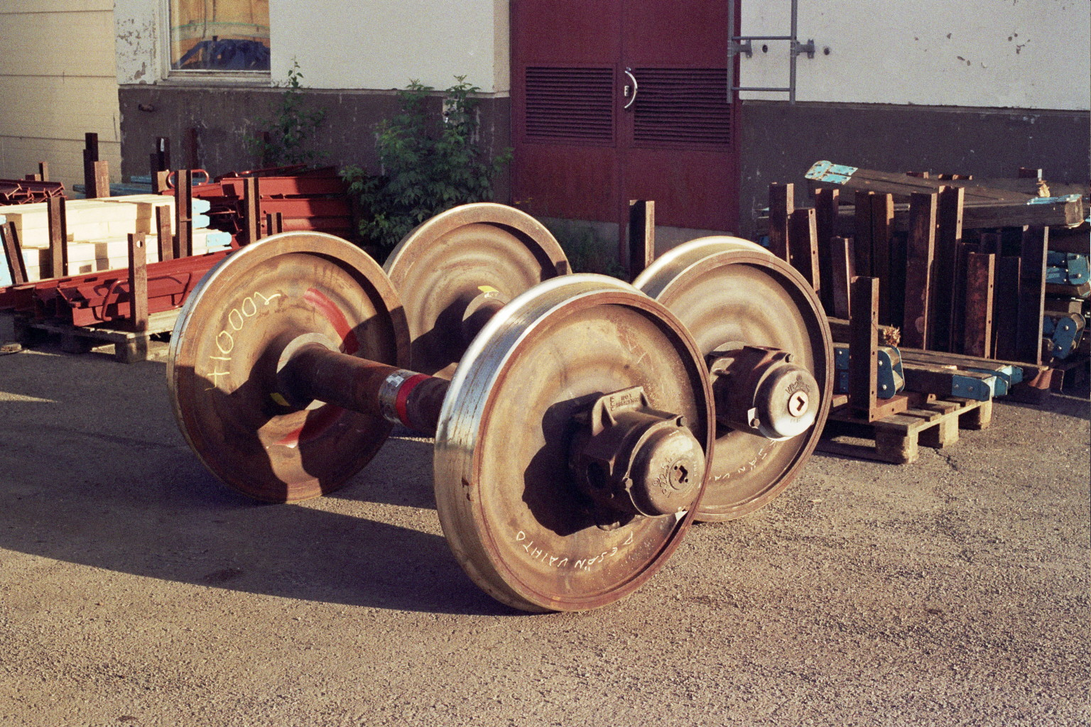 Railway wheels at the wagon repair shop of VR in Viinikka, Tampere, Finland.